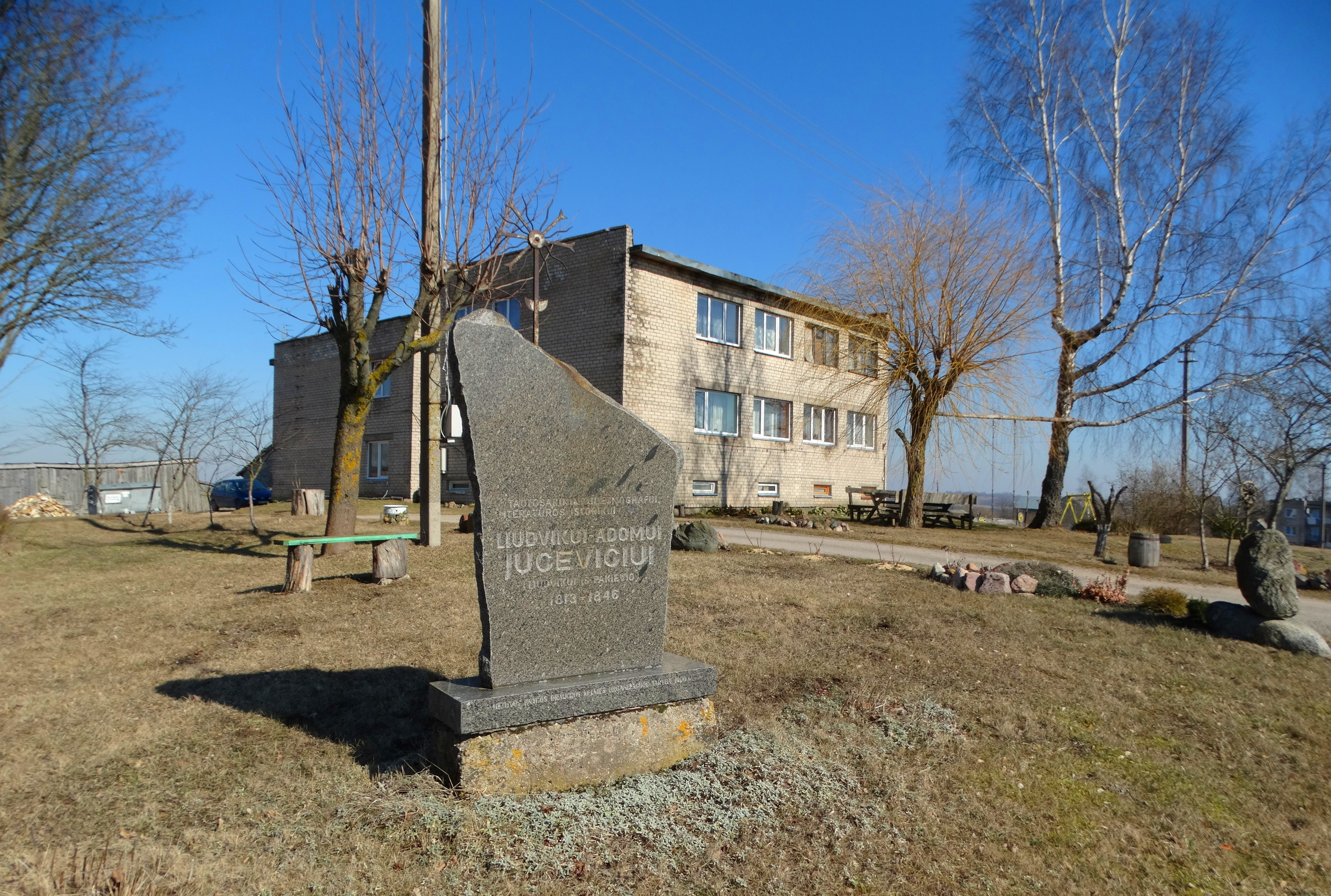 Memorial stone, Pakėvis, Kelmė district, Lithuania